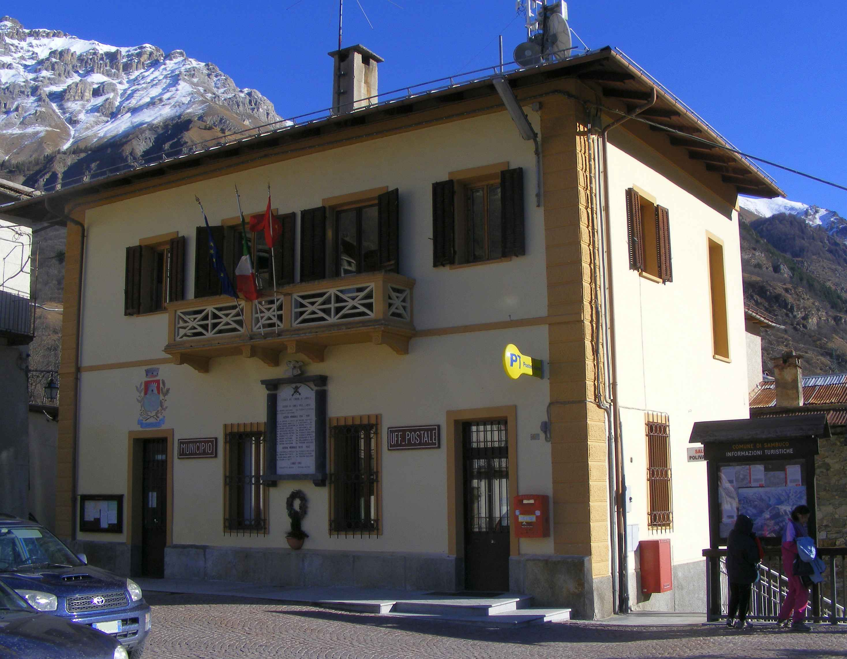 Sambuco (CN, Italy): town hall